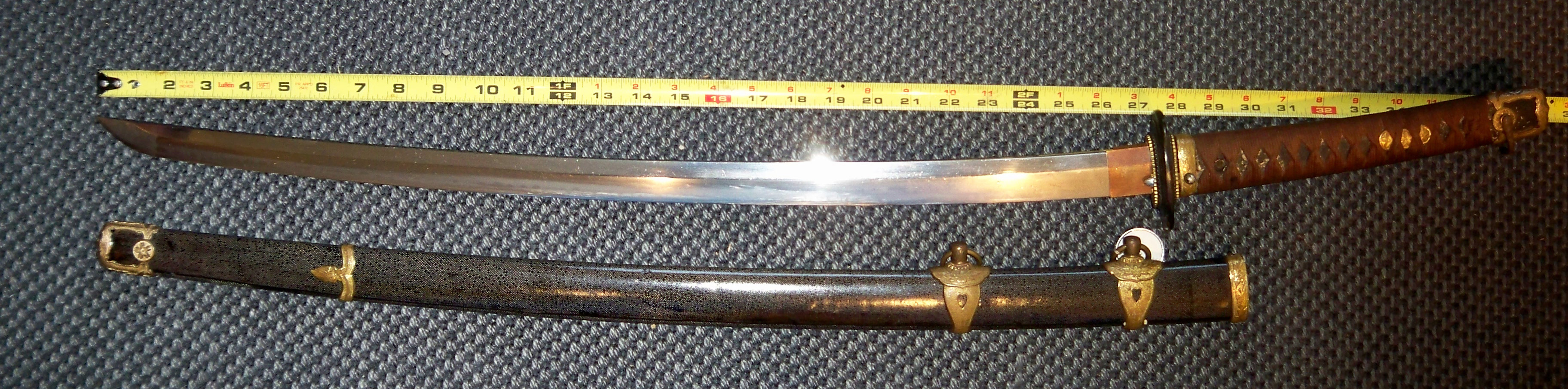 World War II Japanese navel officers katana kai gunto, the scabbard saya is covered with same' (ray skin) .